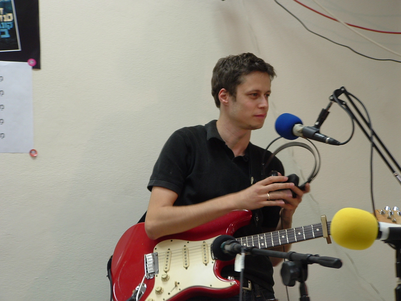 Singer Noam Rotam at "Radio Har Hatzofim"נעם רותם ברדיו הר-הצופים